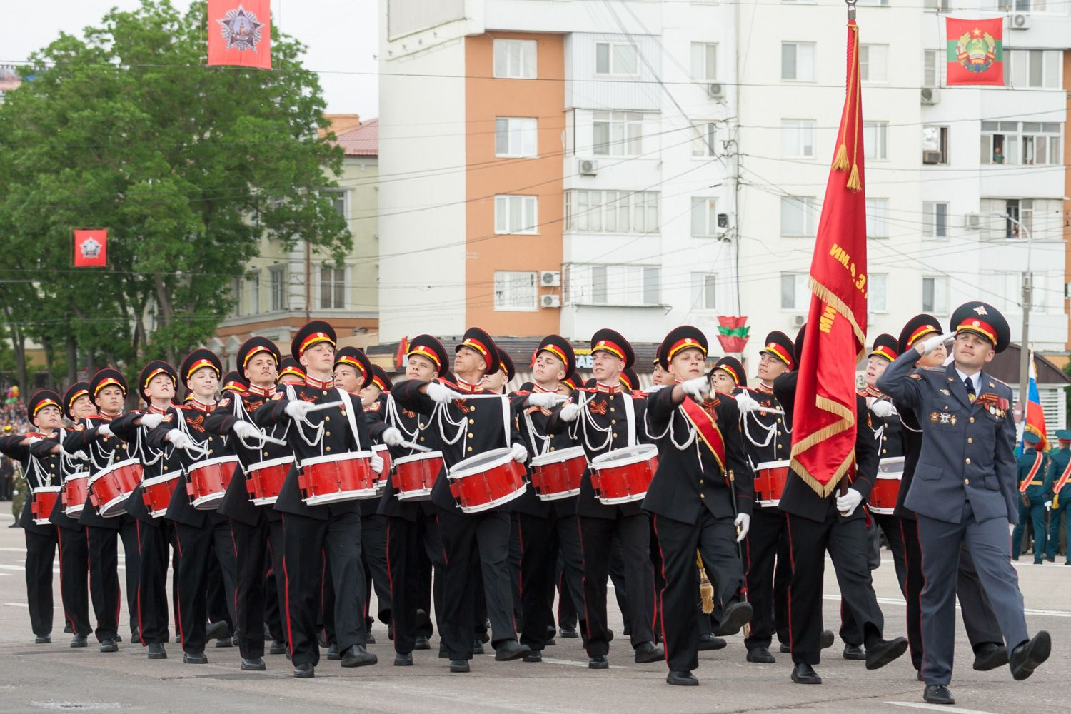 The ceremonial events devoted to the 73rd anniversary of the Great Victory in Tiraspol.